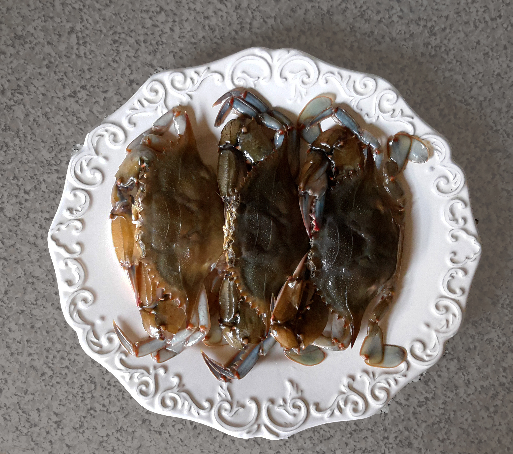 Three soft-shell crabs on a serving plate before seasoning and sauteing